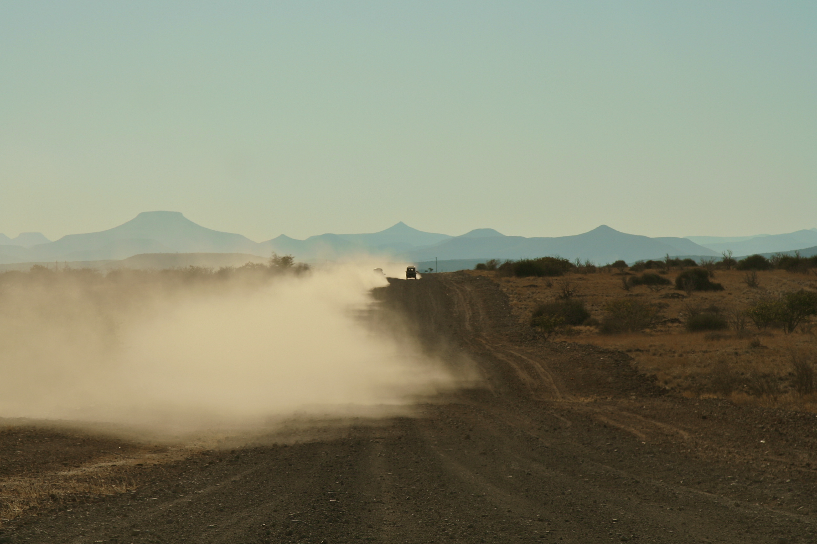 This is an image with the theme "Africa on the Move or Transport" from: Namibia